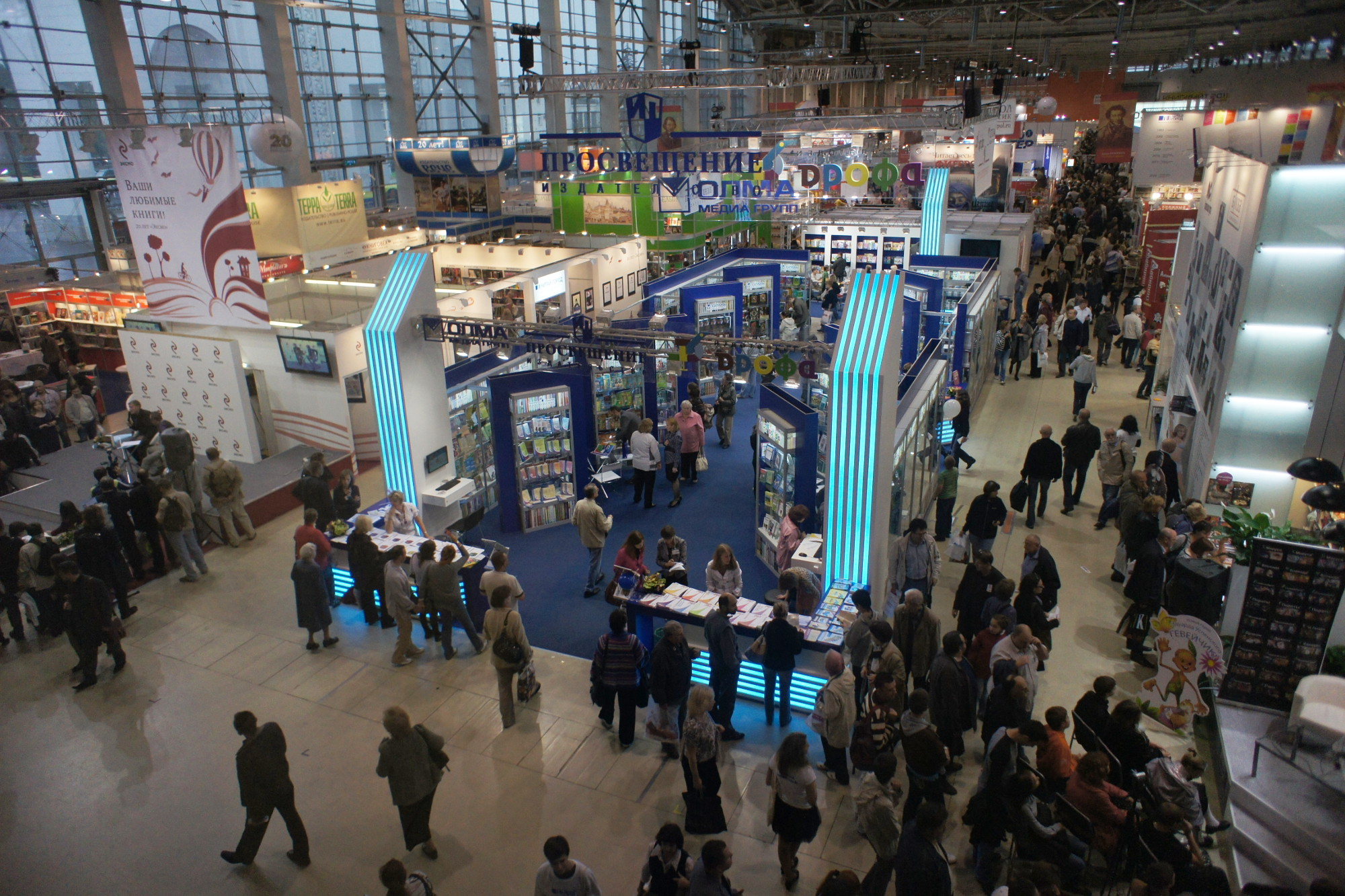 Moscow International Book Fair 2011. View down from second floor.